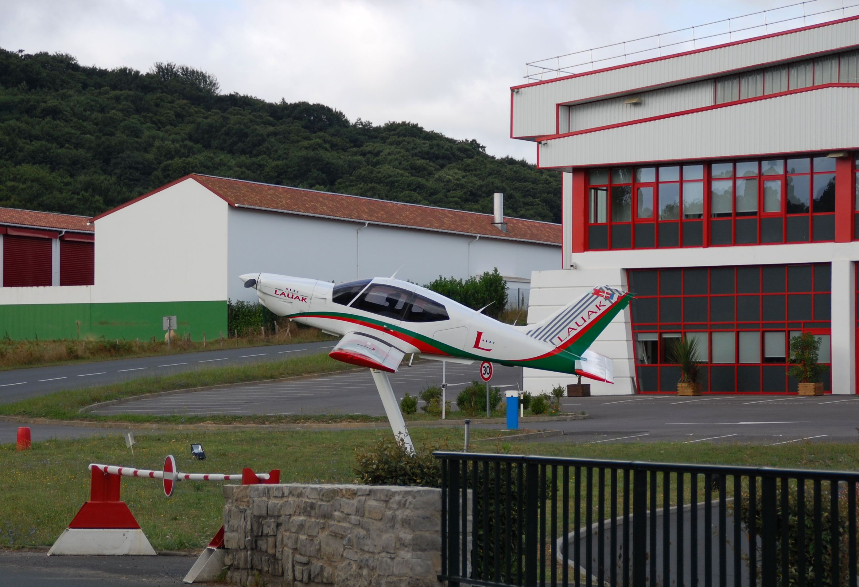 Lauak group in Ayherre